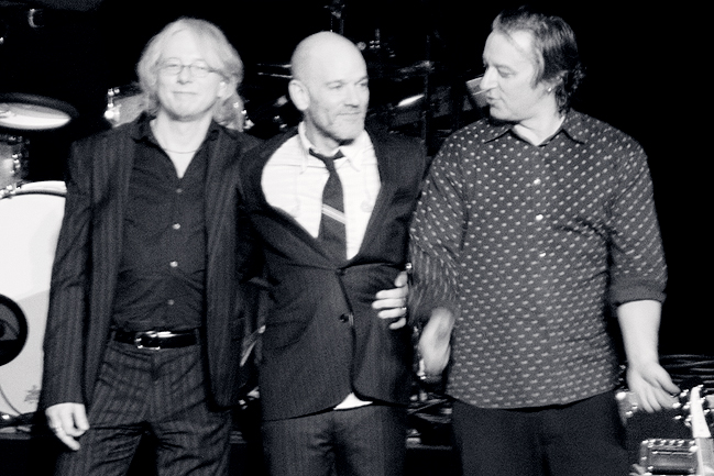 The band R.E.M. in 2008 at the Albert Hall